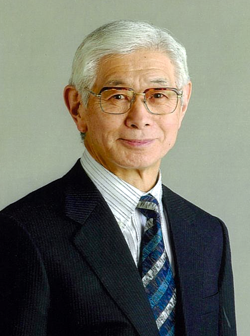 Sukeyasu Shiba, Member of Japan Art Academy, received the Order of Culture on November, 2017.